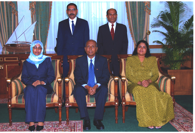 The first fully autonomous Human Rights Commission of the Maldives, constituted on 27 November 2006